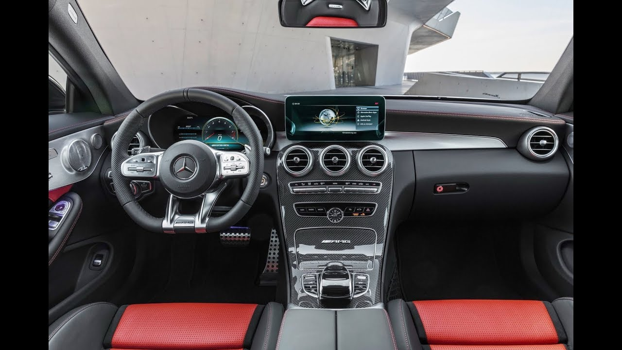 This is an update on the mercedes benz c63 amg interior,with the new digital cluster ansd much more